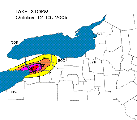 Accumulation amounts of snow, in inches, left by an early lake effect snow storm in the Buffalo (NY) region on October 12-13 2006. One of the worst in American record.